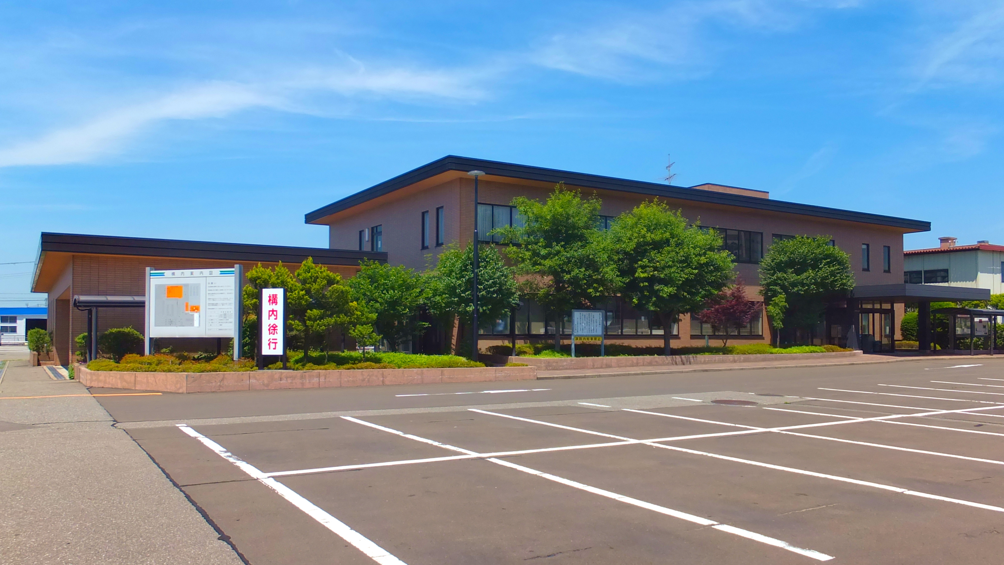 Akita Transport Branch Office, Tohoku District Transport Bureau of the Ministry of Land, Infrastructure, Transport and Tourism of Japan (MLIT)